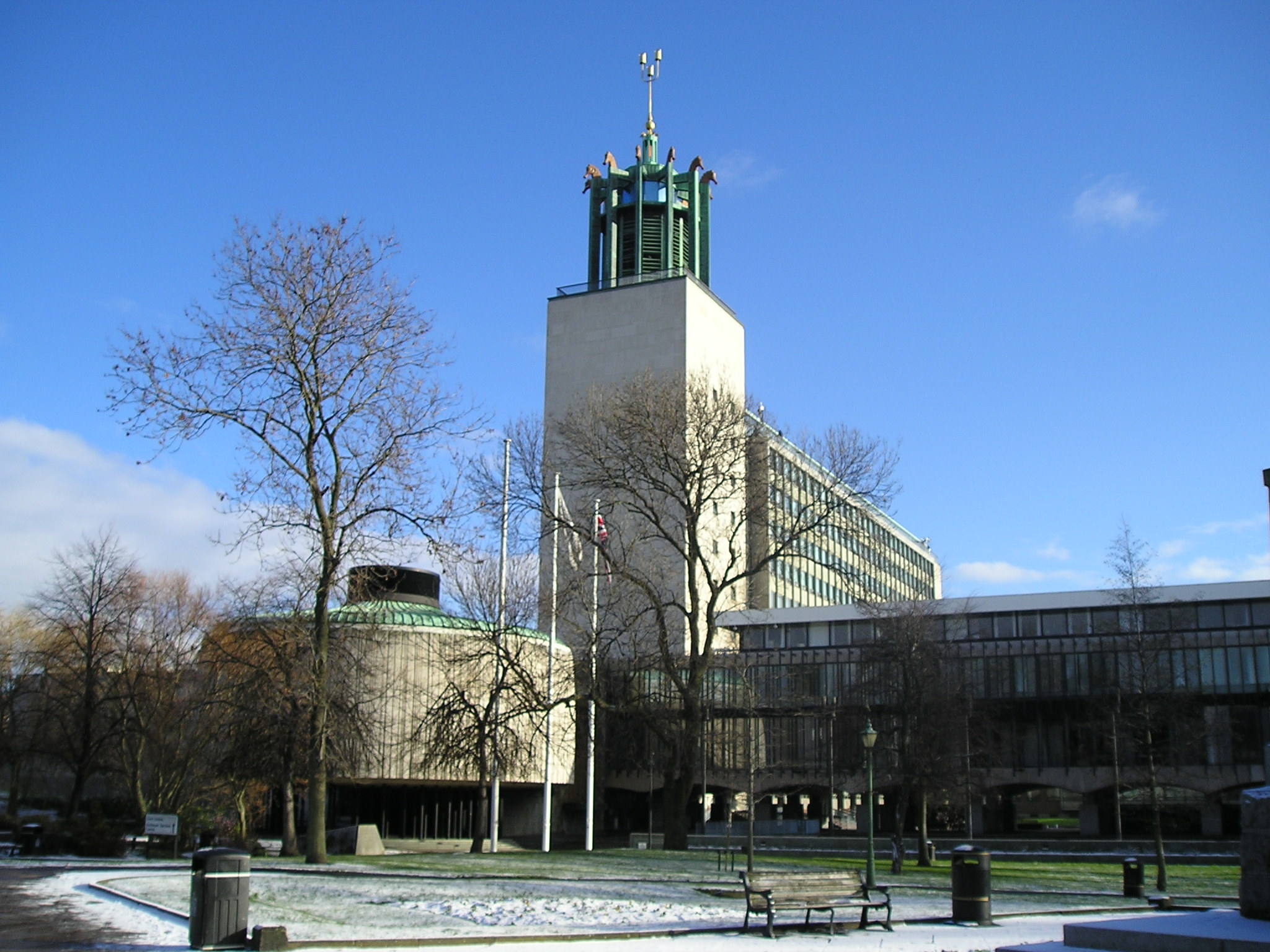 Photograph of Newcastle Civic Centre taken by User:Bob Castle in February 2007, licensed under GDFL.